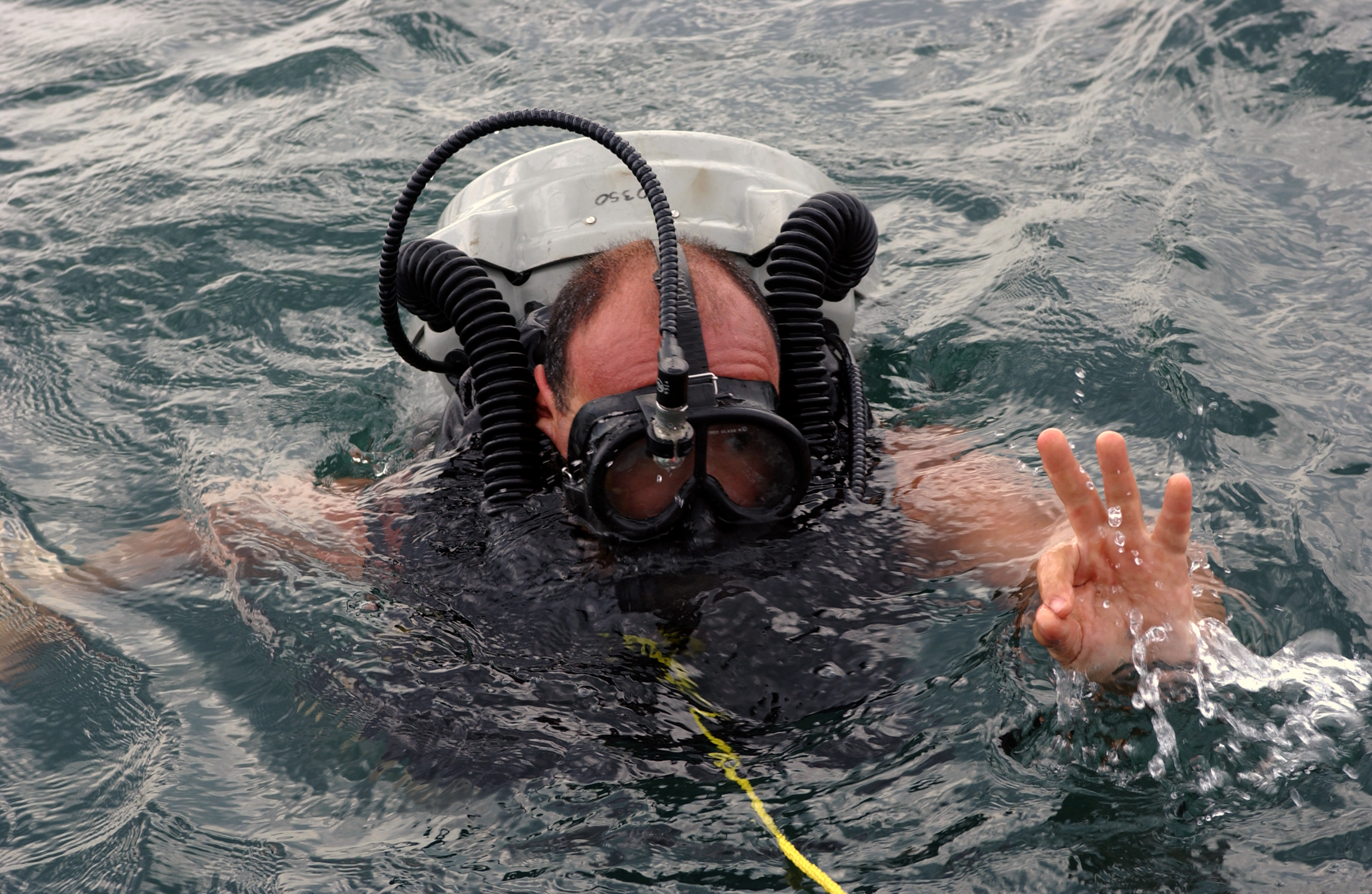 Sasebo, Japan (Oct. 14, 2003) -- Aviation Boatswain's Mate 1st Class Joel Blea assigned to Explosive Ordnance Disposal Mobile Unit 5 (EODMU-5) Detachment 51, gives the "OK" symbol during a diving exercise in Sasebo Bay. U.S. Navy photo by Photographer’s Mate 2nd Class Jonathan R. Kulp. (RELEASED)